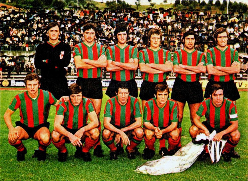 A line-up of A.C. Ternana in the 1972–73 season. From left to right, standing: G. Alessandrelli, G. Mastropasqua, M. Agretti, R. Luchitta, N. Traini, B. Beatrice; crouched: M. Russo, A. Rosa, A. Cardillo, F. Benatti, R. Marinai (captain).